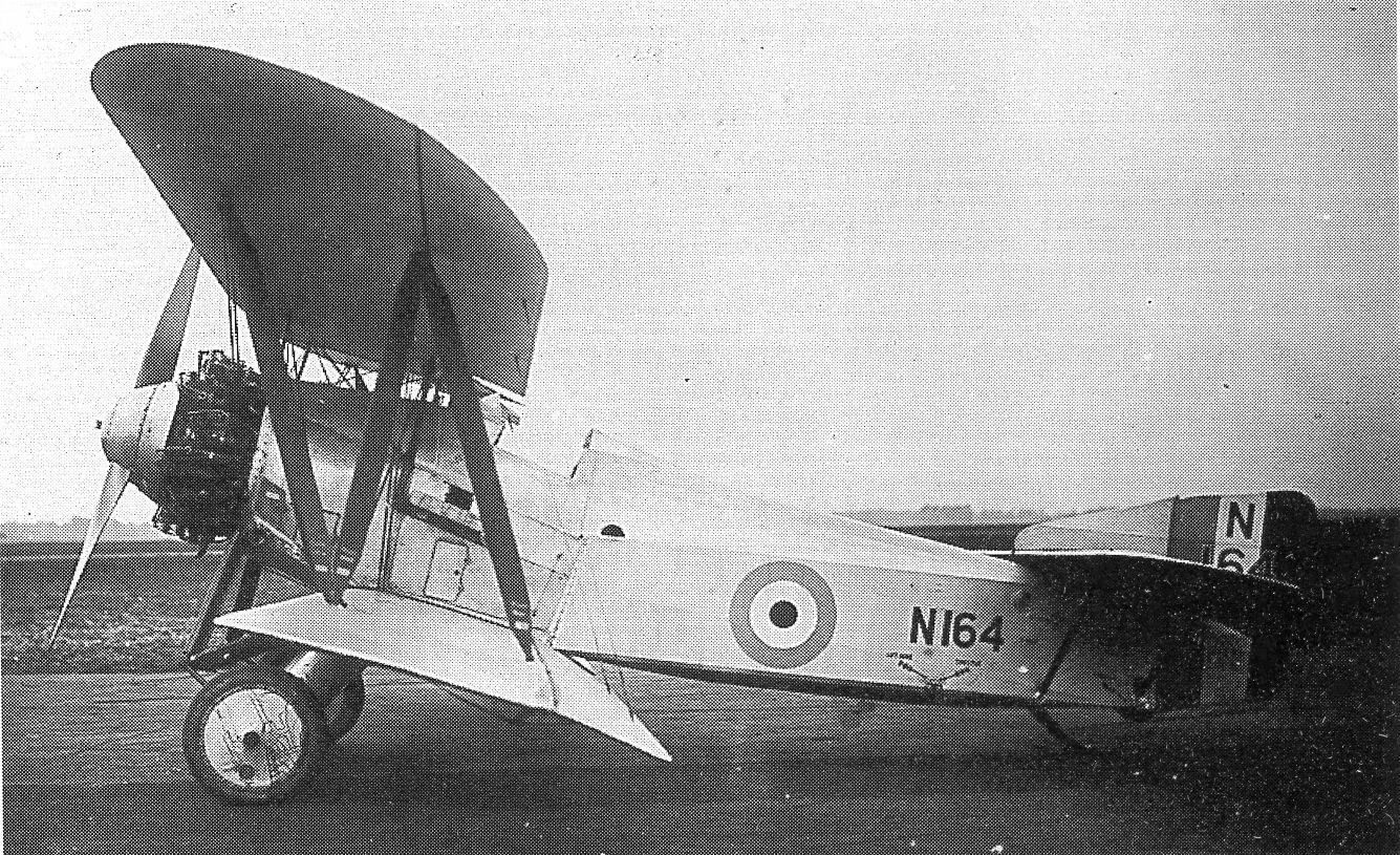 Fairey Flycatcher second prototype N164 in mid-1923